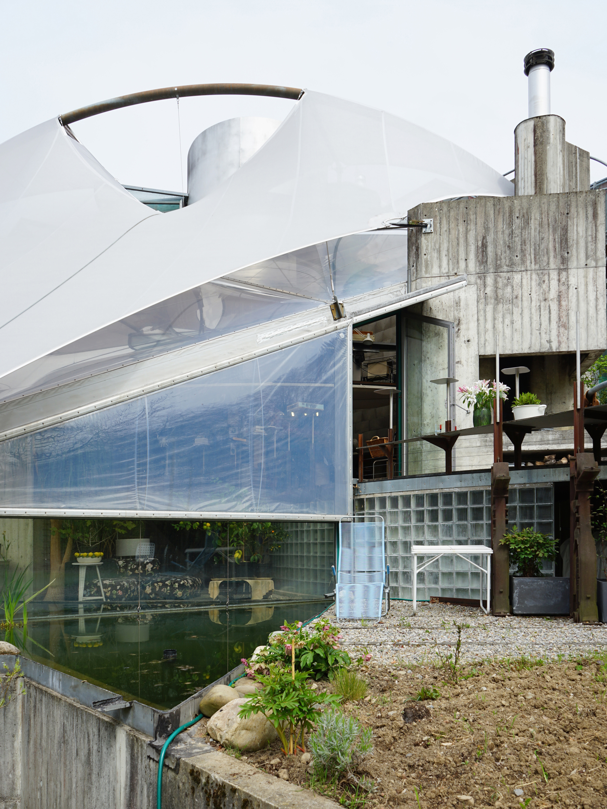 K3, Peter Thomann, Adliswil